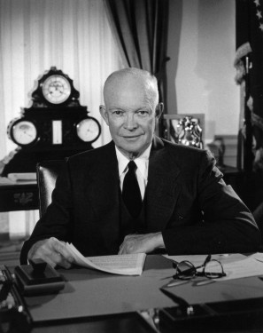 President Dwight D. Eisenhower, Oval Office